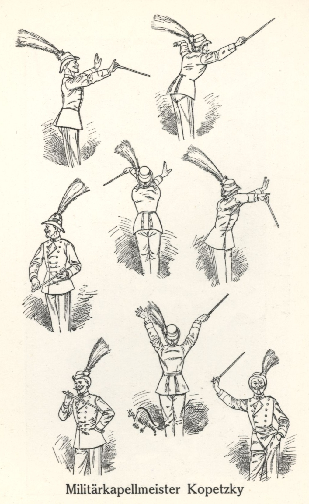 Wendelin Kopetzky (1844–1899), Austrian military band leader and composer; drawing by Hans Schliessmann